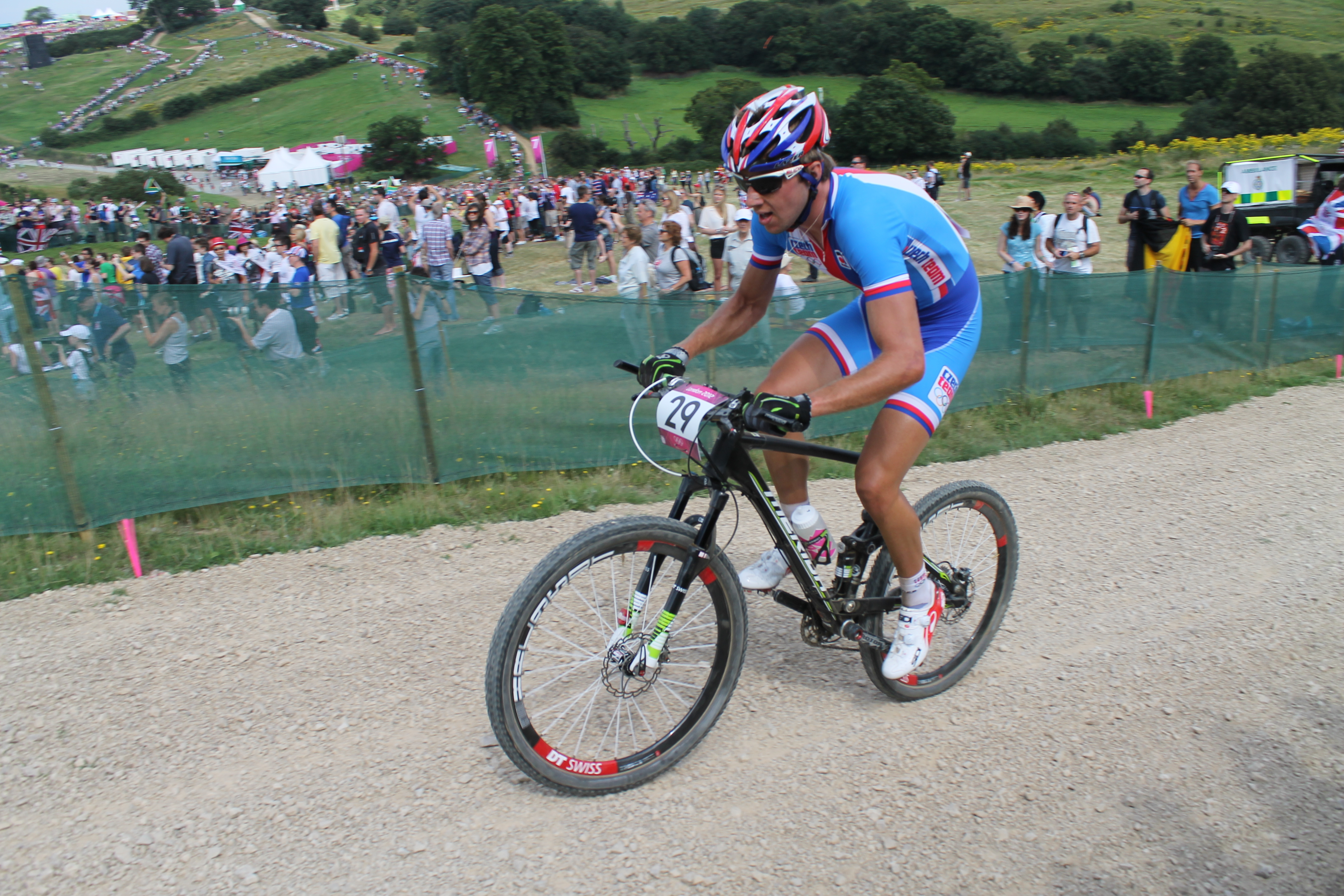 Cycling at the 2012 Summer Olympics – Men's cross-country Ondřej Cink (29) (CZE) IMG_4024